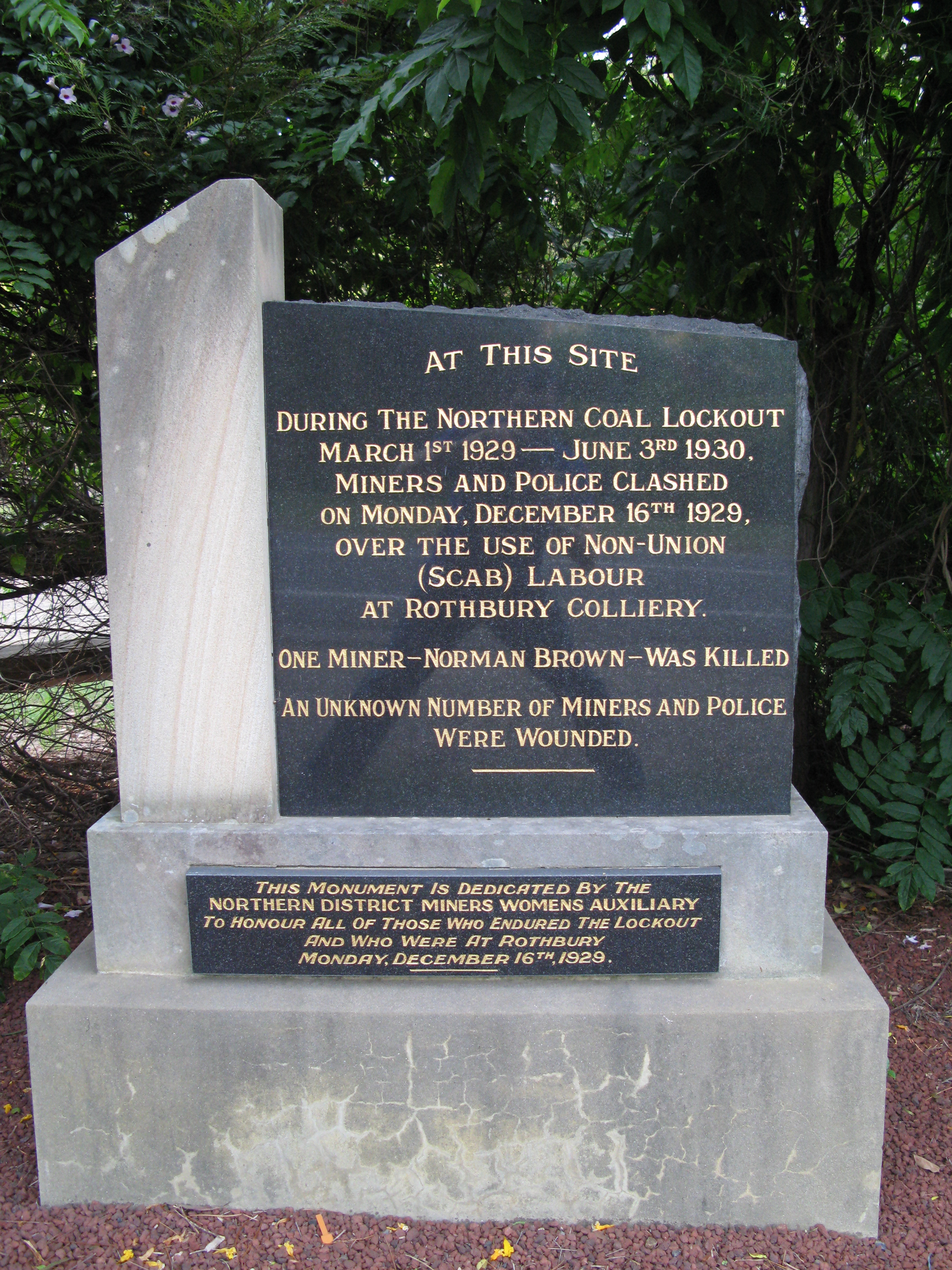 Cenotaph at memorial commemorating the death of a coal miner, Norman Brown, during a lockout at Rothbury coal mine, New South Wales Australia, on December 16, 1929.